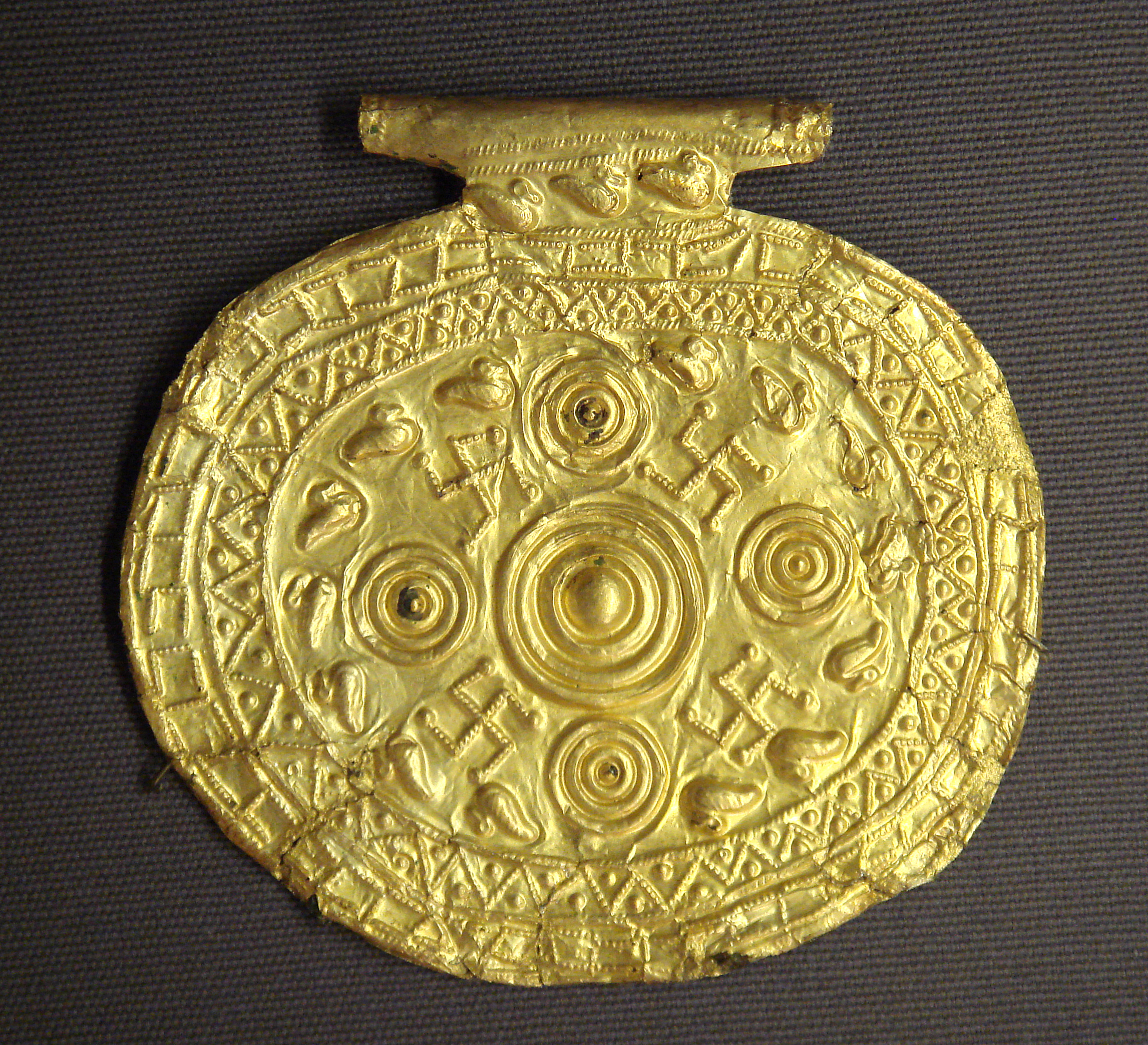 Etruscan_pendant_with_swastika_symbols_Bolsena_Italy_700_BCE_to_650_BCE.